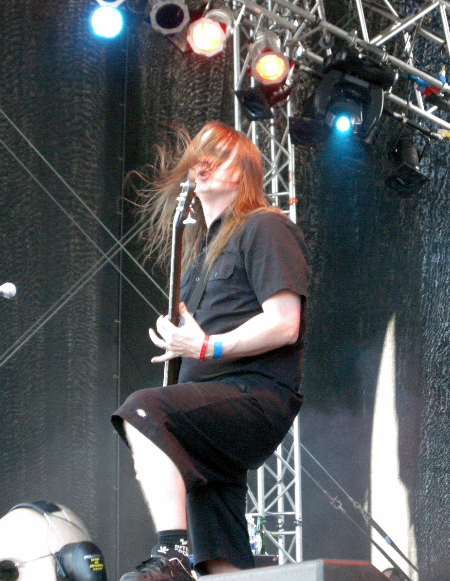 Jonas Björler, bass player of Swedish thrash metal band The Haunted at Metaltown 2009